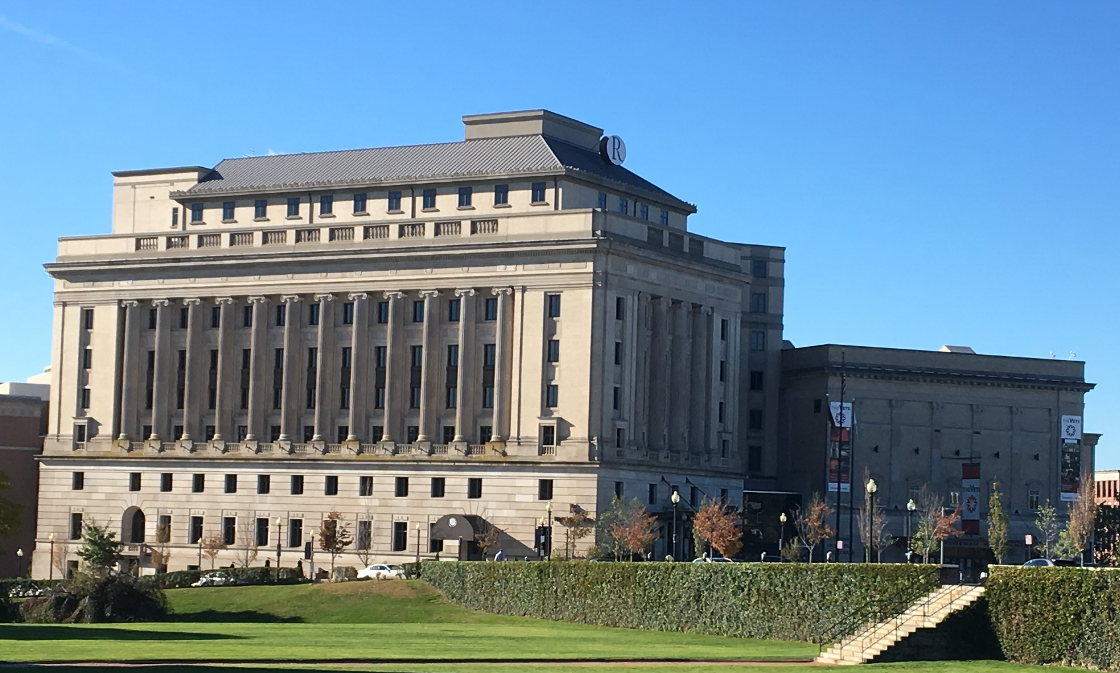 The Masonic Temple Providence, Rhode Island (1927-29) — also known, since 2007, as the Renaissance Providence Hotel — in central Providence, Rhode Island, USA. The Veterans Memorial Auditorium is at right.